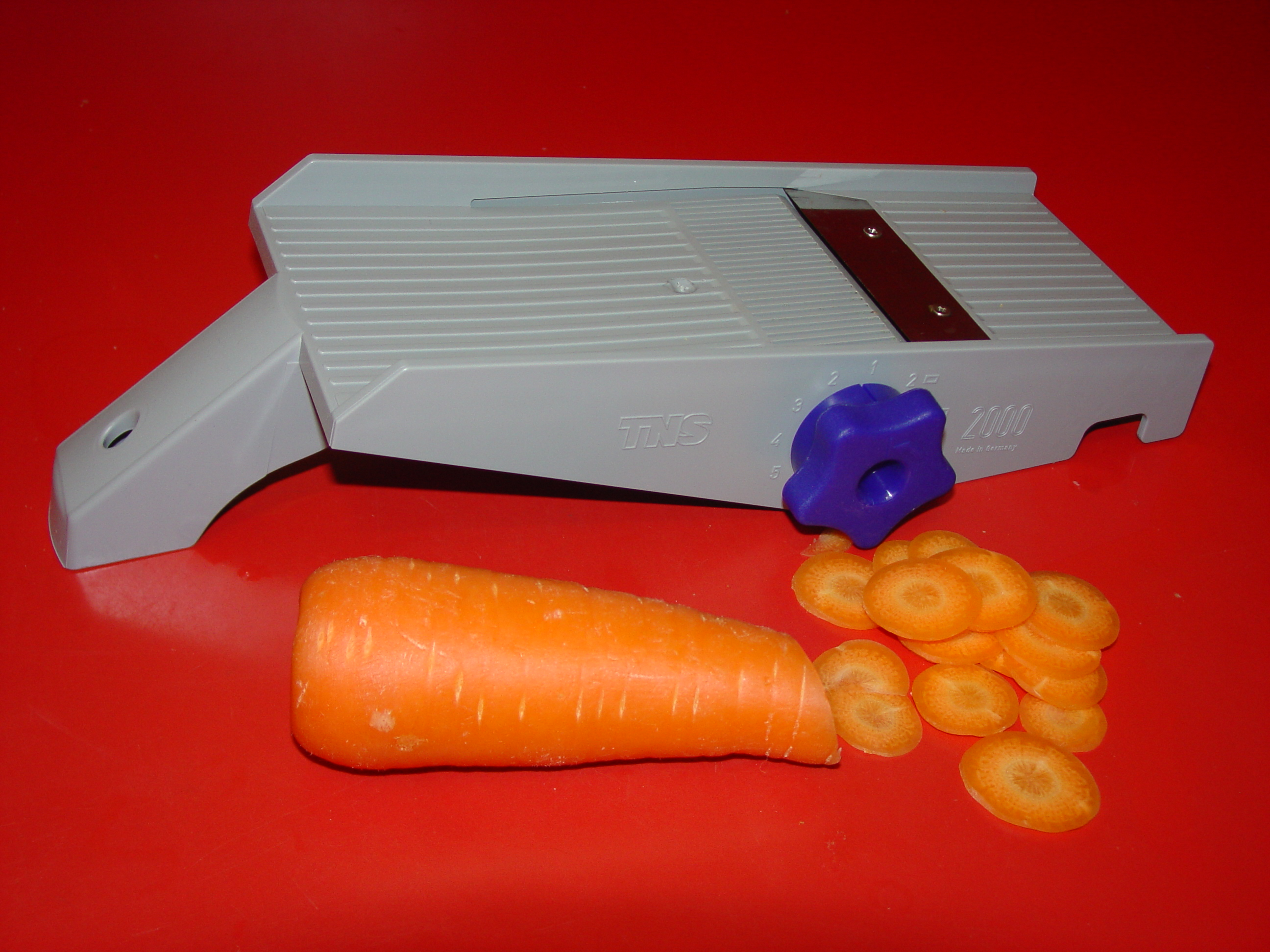 A cooking mandolin on a red laminate background with a carrot that has just been sliced. Taken 1:36pm 28 January 2006 with a Sony Mavica. Taken by Alex Sims. It is a Gemüsehobel Model TNS 2000.